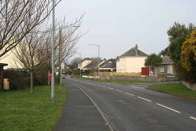 Quintrell Downs. Looking westward along the A392. Quintrell Downs is a village-like settlement just outside Newquay which has grown out from the crossroads since the 1940s.